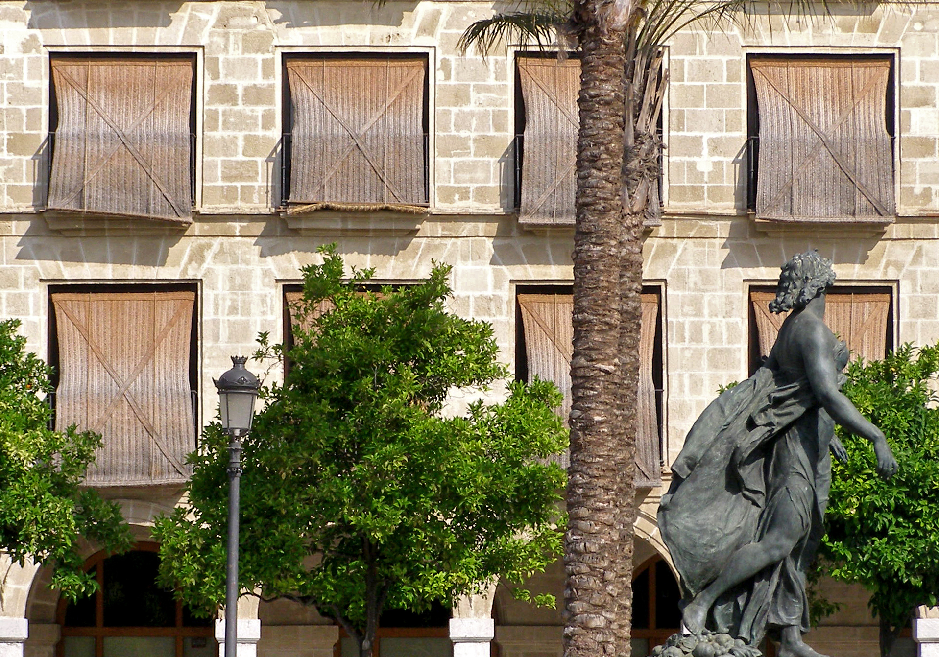 Plaza del Arenal, Jerez de la Frontera